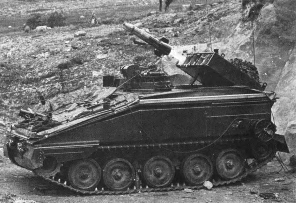 A Swingfire being launched from a Striker vehicle